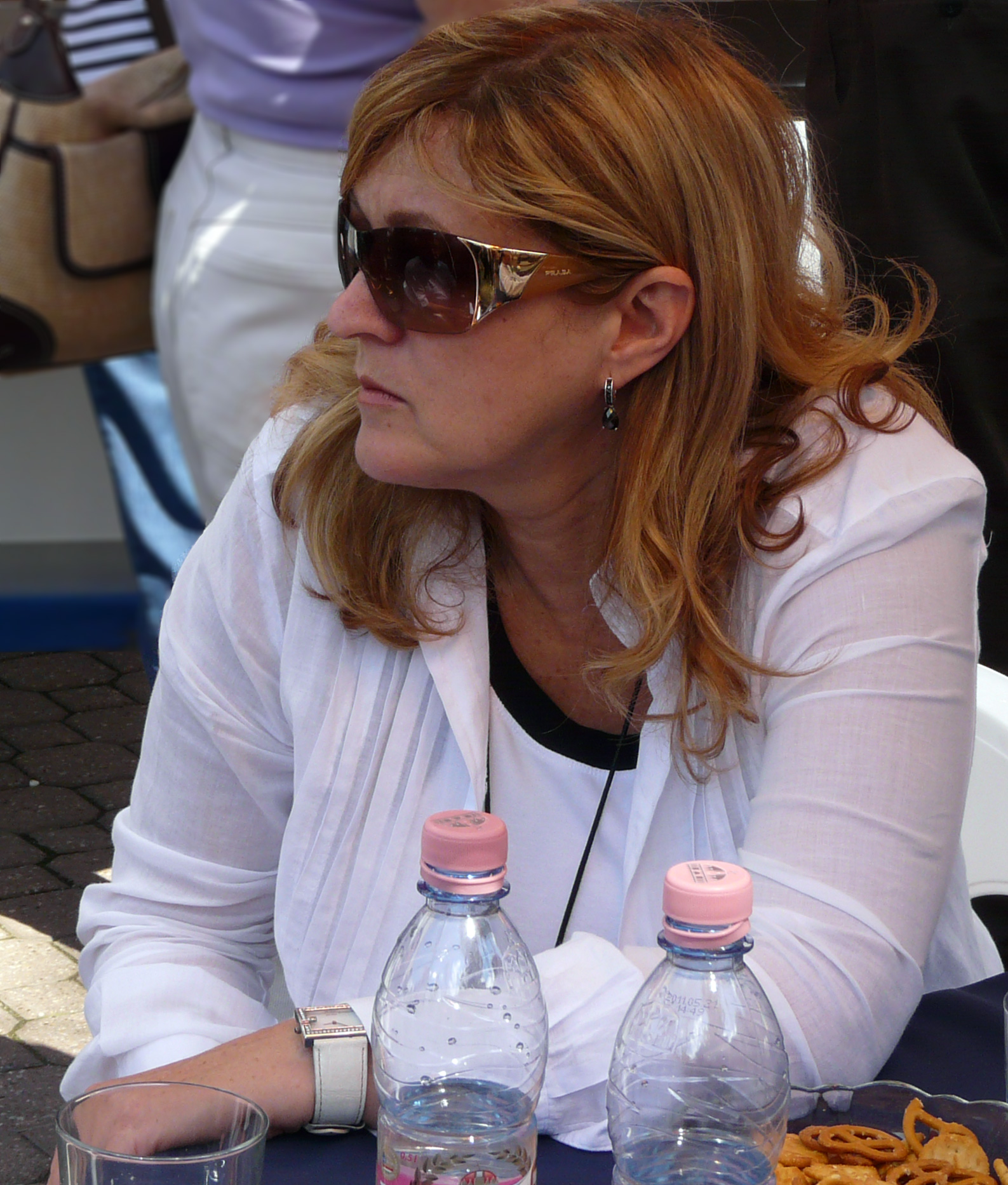 Mária Schmidt, Hungarian historian. June 2010.